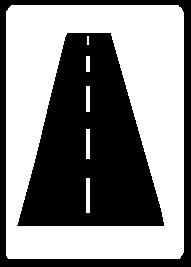 Street sign in Iran